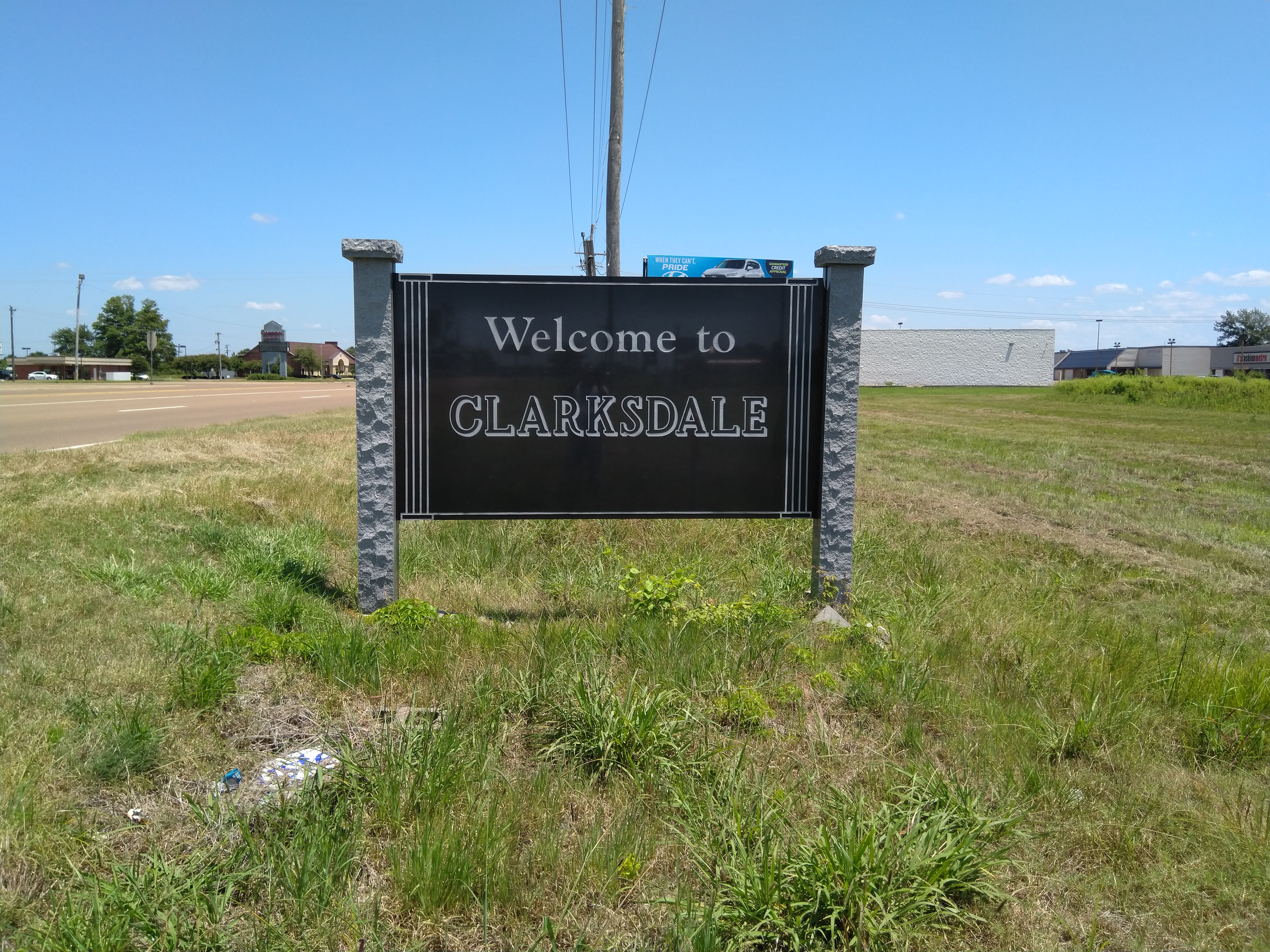 Welcome sign located on Mississippi Highway 161 (Old Highway 61)